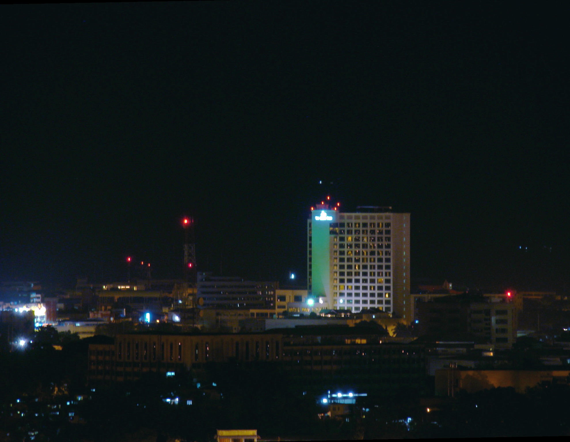 night view of Davao City